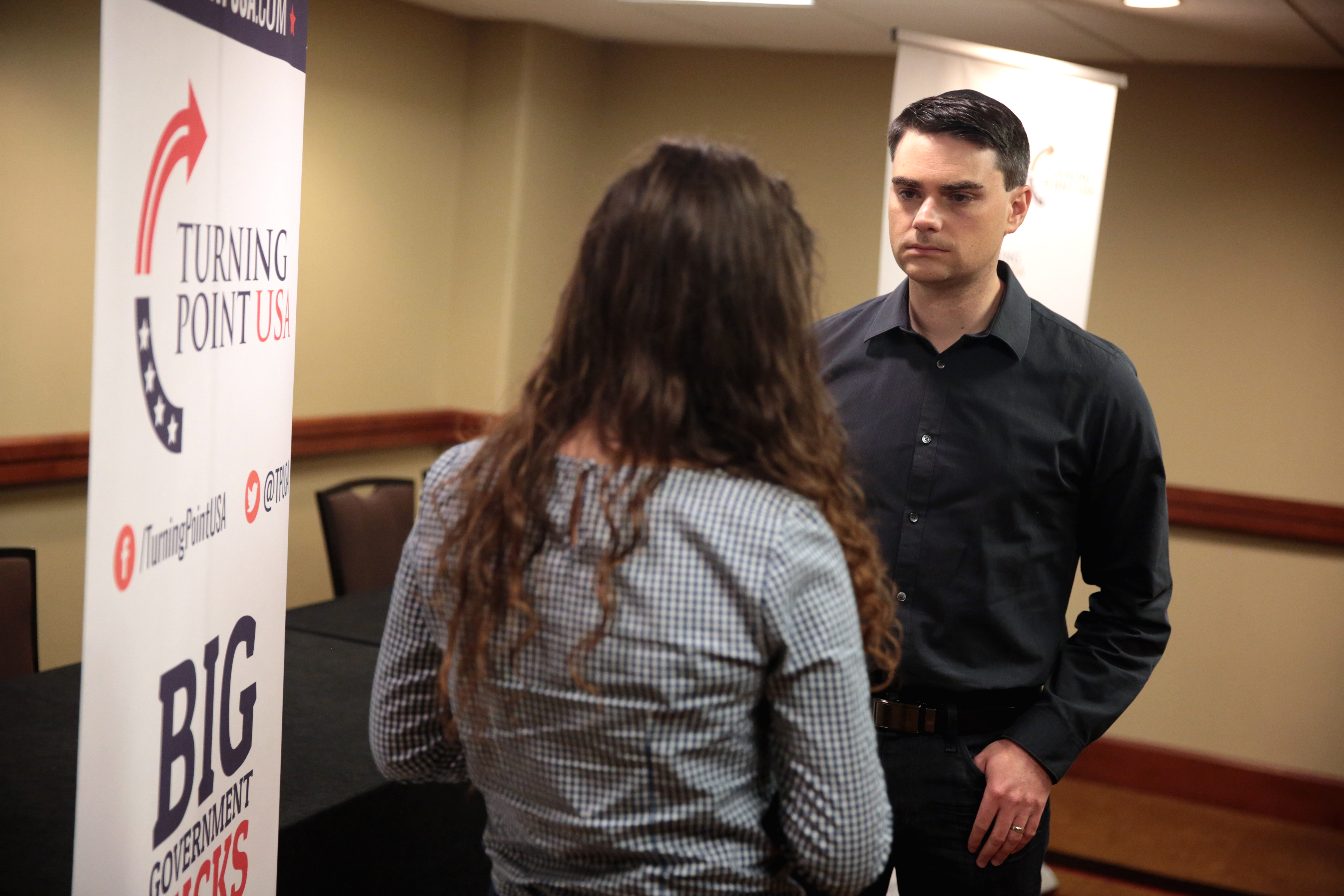 Ben Shapiro speaking with an attendee at the 2018 Young Women's Leadership Summit hosted by Turning Point USA at the Hyatt Regency DFW Hotel in Dallas, Texas.